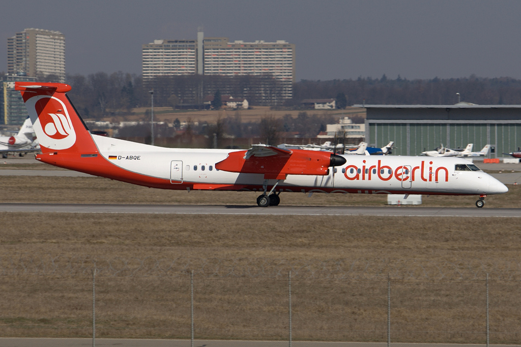 Air Berlin (LGW) Bombardier Dash 8Q-400 D-ABQE at Stuttgart Airport